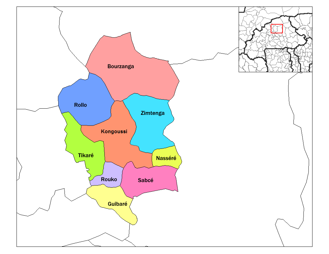 This map has been uploaded by Osiris fancy from to enable the Wikimedia Atlas of the World. Original uploader to was Rarelibra. Osiris fancy is not the creator of this map. Licensing information is below. Map of the departments of Bam province in Burkina Faso. Created by Rarelibra 03:10, 30 September 2006 (UTC) for public domain use, using MapInfo Professional v8.5 and various mapping resources.